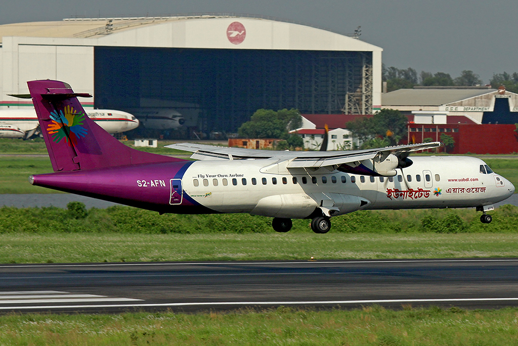 United ATR-72(S2-AFN),landing at VGHS.